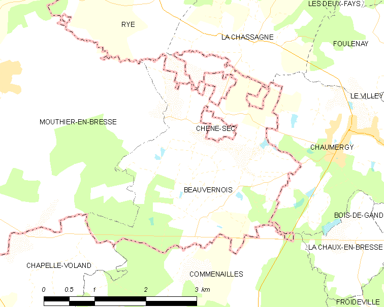 Map of French municipality